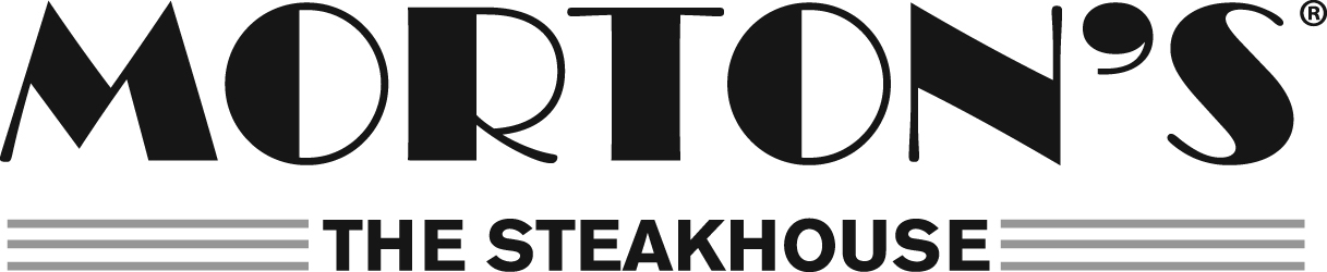 The logo of Morton's The Steakhouse